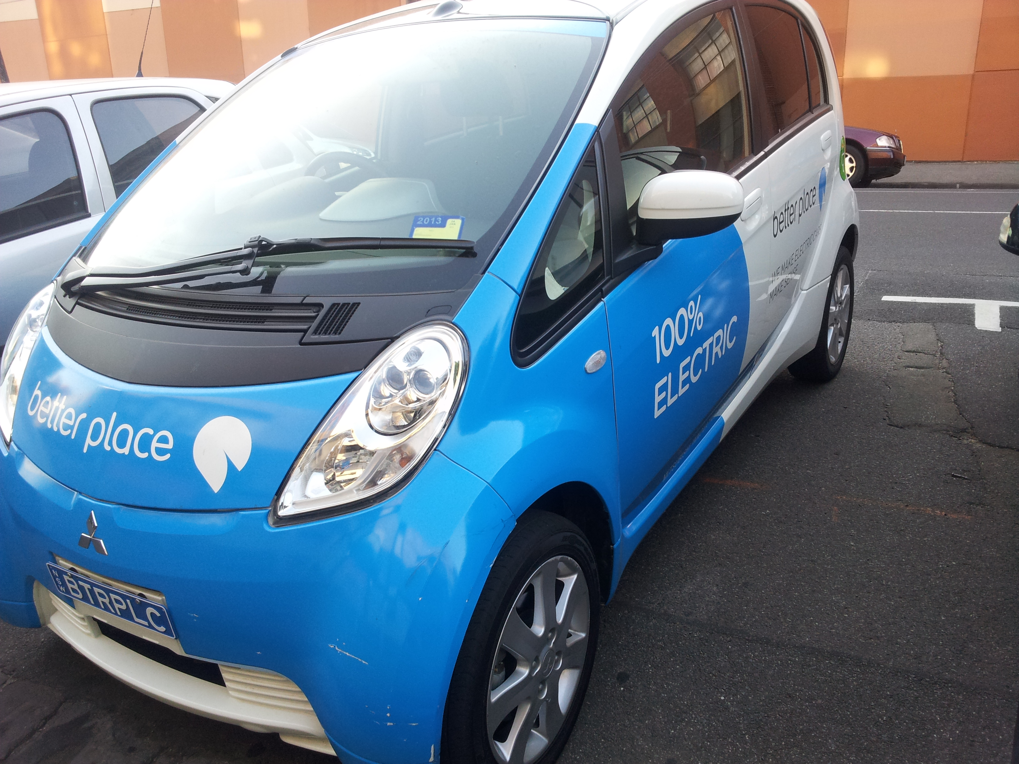 A "Better Place" company car photographed on a public street in Abbotsford, in January 2013.